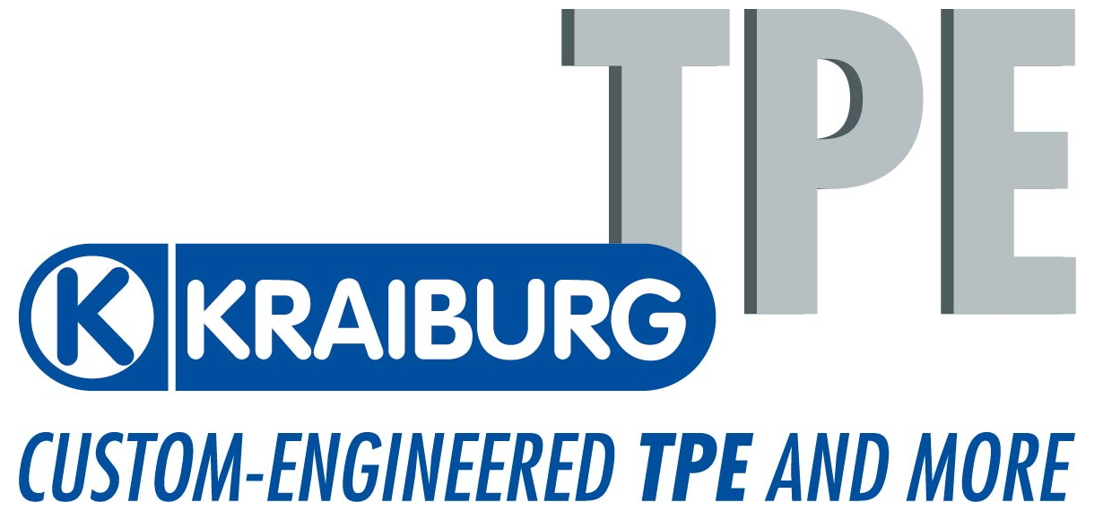 Kraiburg TPE Official Logo